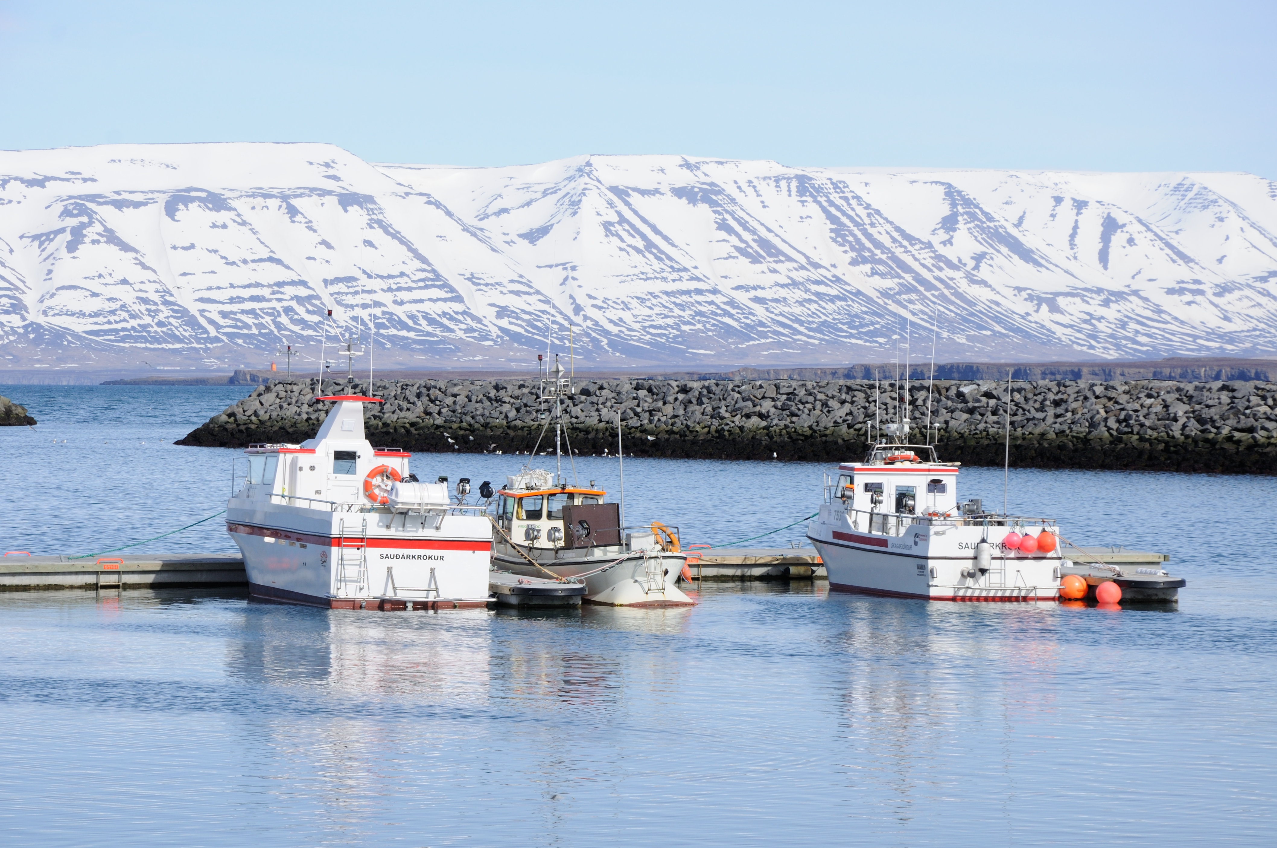 Iceland, harbour of Sauðárkrókur